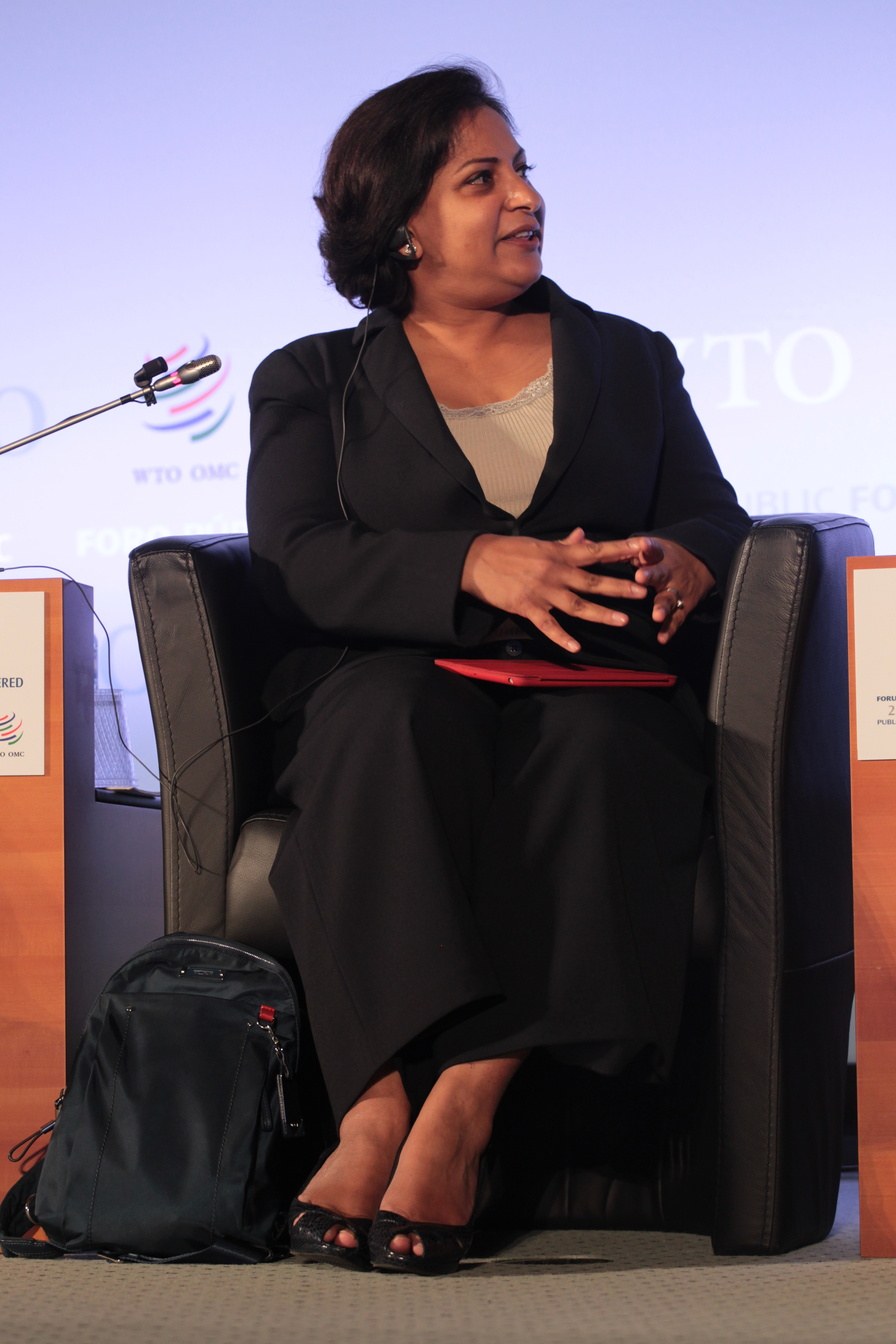 WTO Public Forum 2014, Day 2: PLENARY DEBATE What trade means for Africa